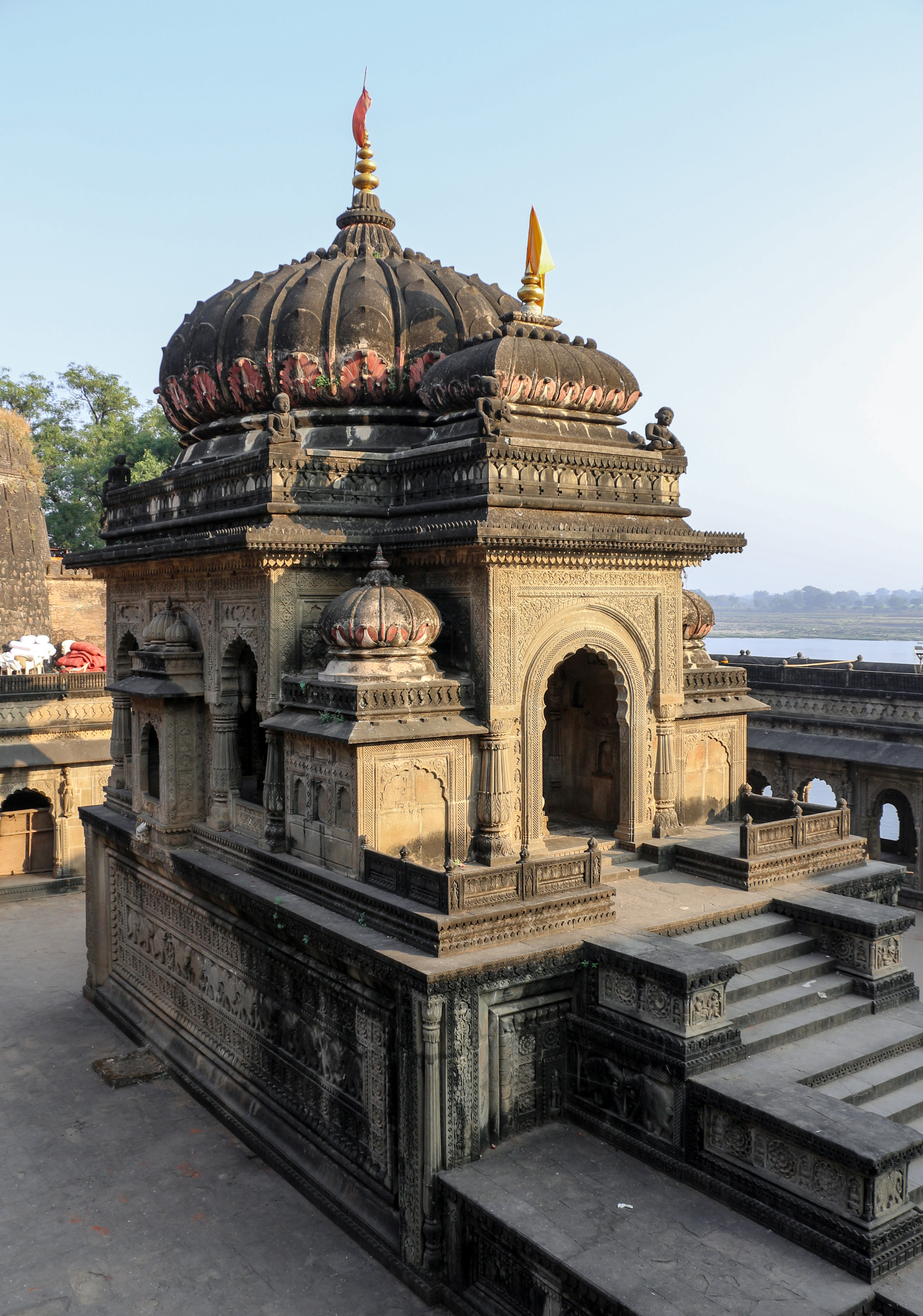 Chhatri of Vithoji in the Maheshwar Fort, Madhya Pradesh, India.